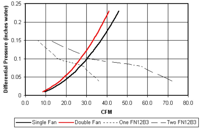 Axial flow fan curve Author David Lippincott for Chassis Plans URL